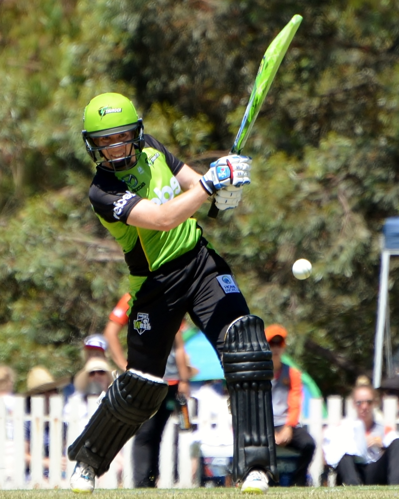 Sydney Thunder captain Alex Blackwell hits out on her way to 26 against the Perth Scorchers, in a WBBL match at Lilac Hill Park in Perth